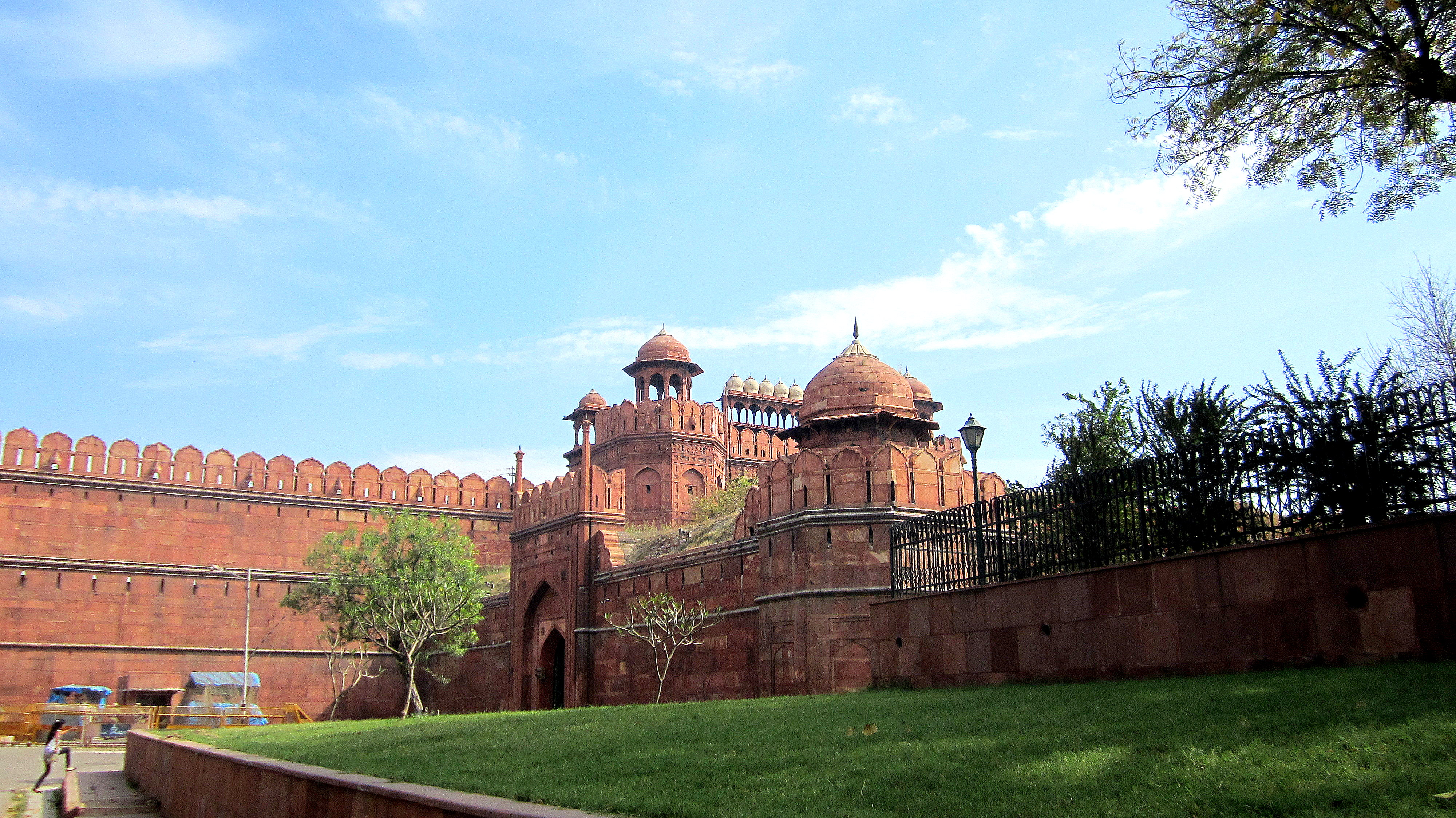 Delhi gate of red fort